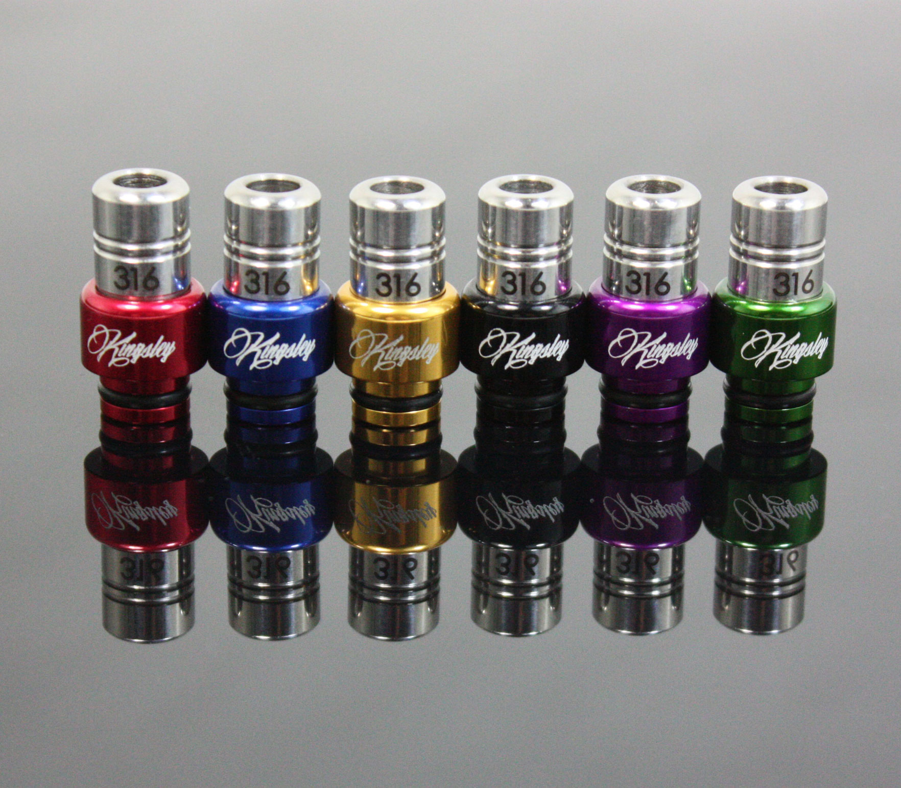 Kingsley Detachable Drip Tip